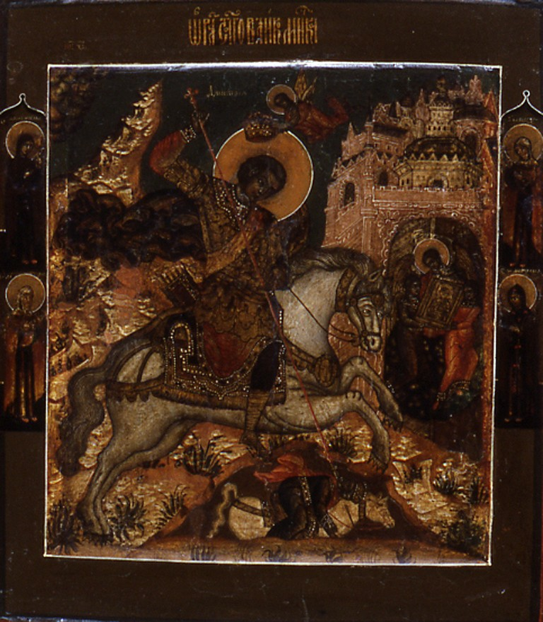 Demetrius, a favorite "warrior saint" of both the eastern and western worlds and a fourth-century martyr under the emperor Maximian, is shown here killing the gladiator Lyaeos, who reportedly killed many Christians. According to tradition Demetrius himself, not actually a soldier but the son of a senatorial family, did not actually kill Lyaeos, but gave his blessing to a youth named Nestor who did. An angel descends at the top center with the crown of martyrdom, and at the right are the walls of the city of Salonica, or Thessaloniki, Demetrius' birthplace. Demetrius is credited with numerous posthumous miracles, and at the left of this composition is an image of a miraculous event associated with his icon. On the borders of the icon are the saints Mary Magdalene, Daria, Natalia, and Matrona, possibly the namesakes of the icon's original owners.